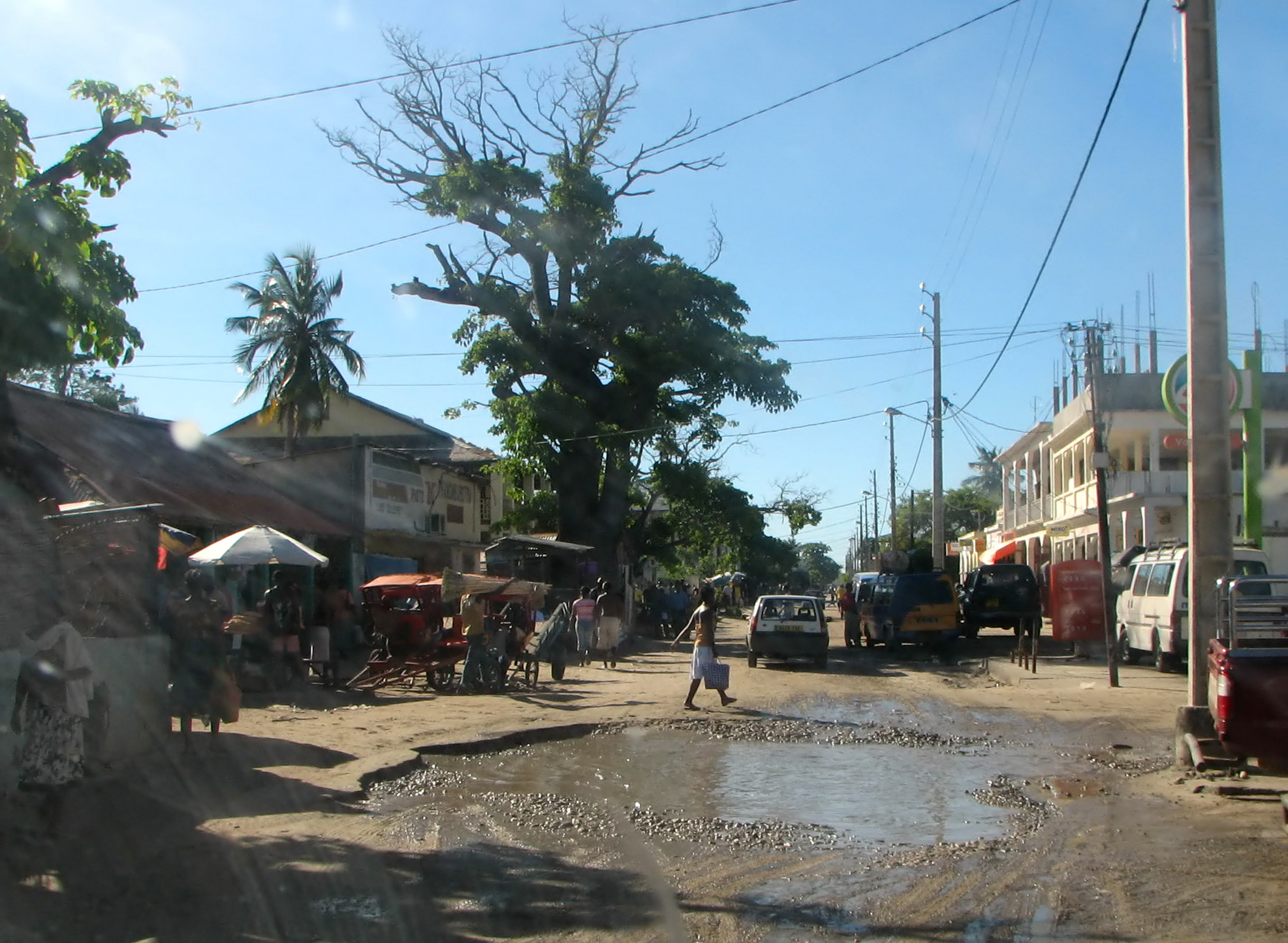 Morondava, Madagascar